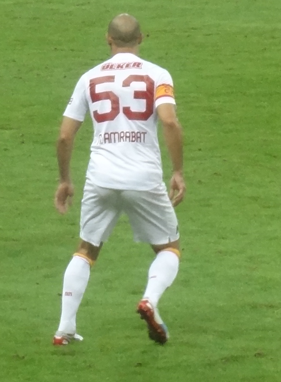 Amrabat wearing number 53